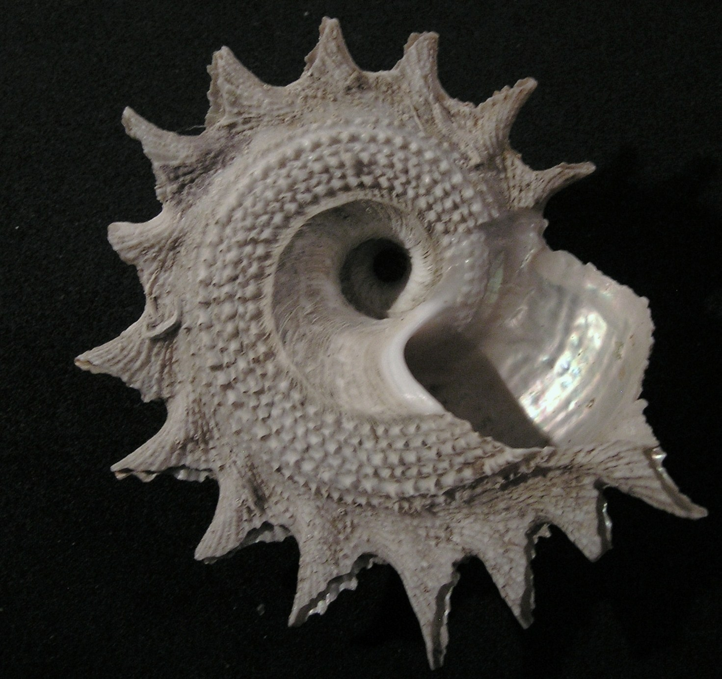 Astraea heliotropium (Martyn, 1784); family Turbinidae; New Zealand